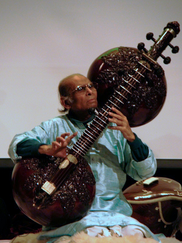 Asad Ali Khan plays the rudra veena in February 2009